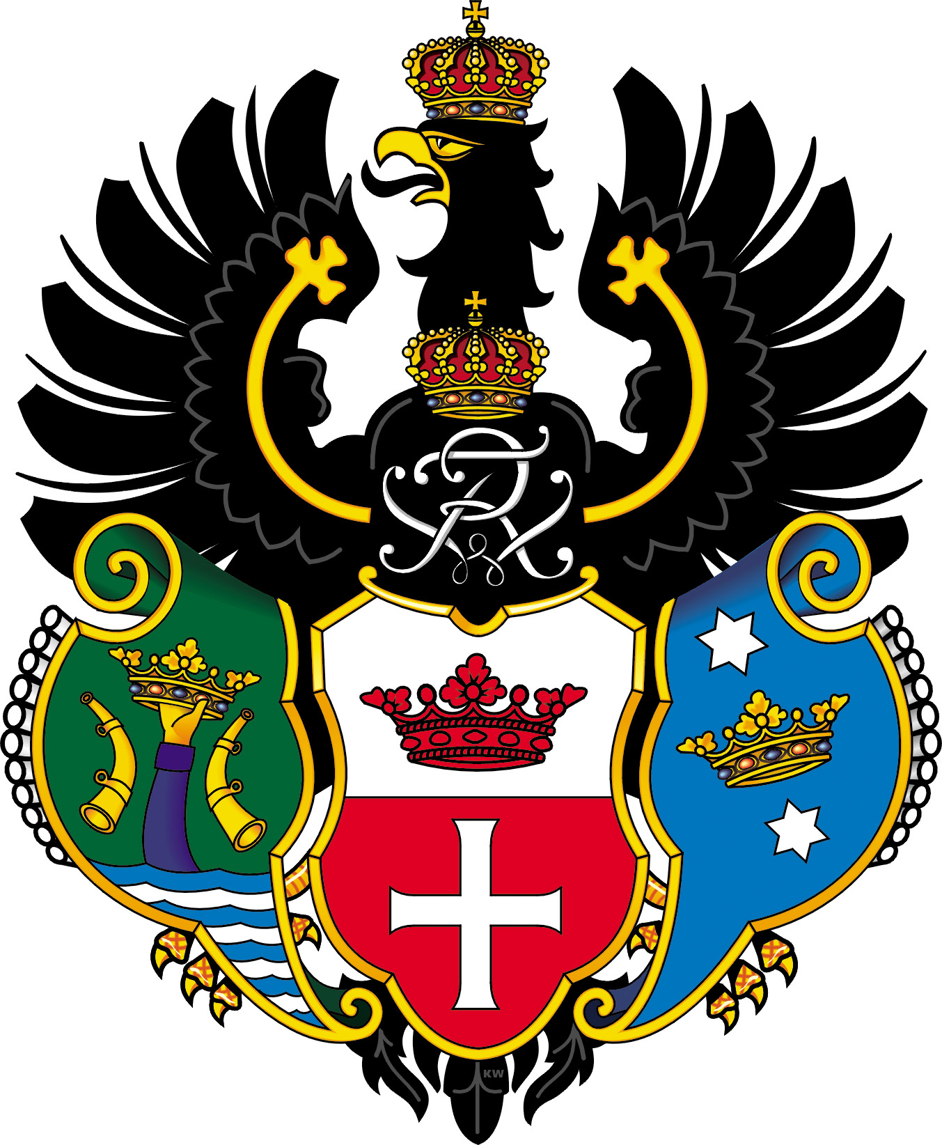 Coat of arms of the city of Königsberg